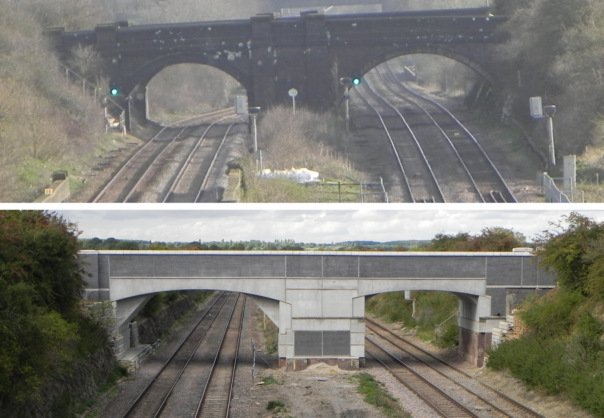 Road bridges over the Midland Main Line in Bedfordshire were replaced in 2014 to allow overhead electrification and the passage of larger rolling stock. Here is the bridge carrying New Road at Object location52° 11′ 56″ N, 0° 31′ 30″ W is shown before (March 2014) and after (August 2014) the upgrade.